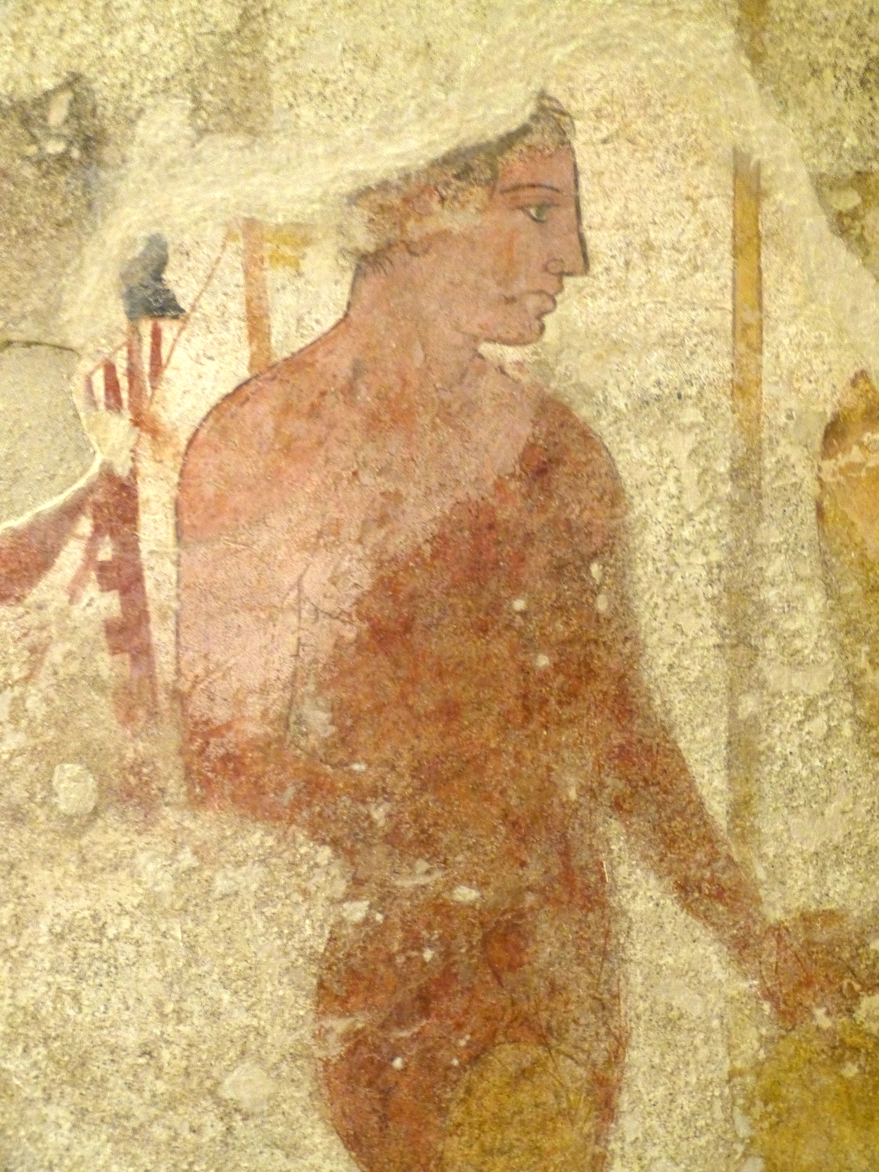 Museo Archeologico Nazionale (Orvieto). Tomba Golini: Banqueting scene ( 4th century BC.)